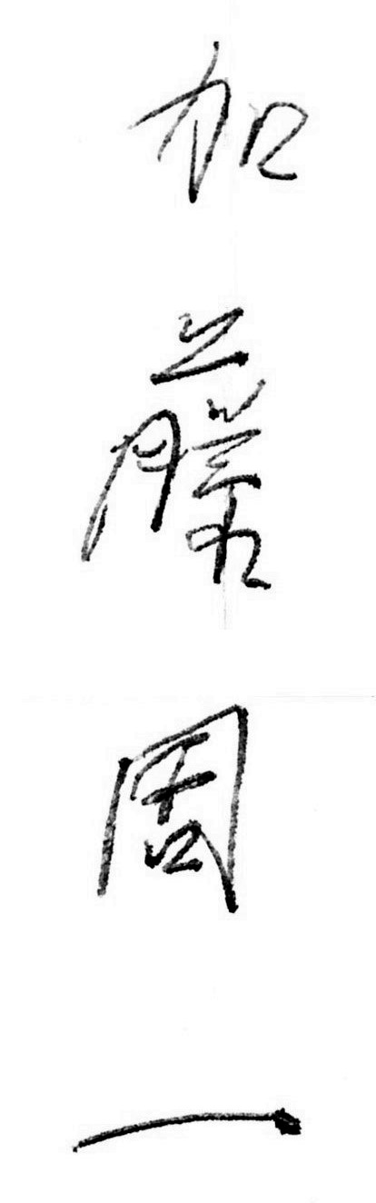 Sign Kato Shuichi